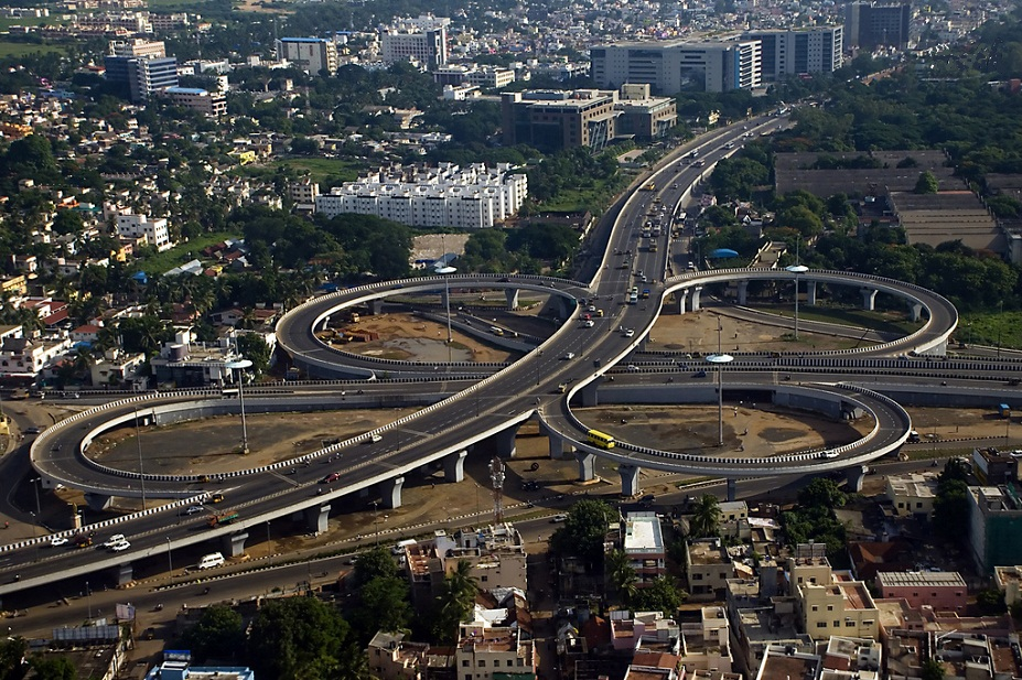 Kathipara Junction is an important road junction in Chennai, India. It is located at Alandur, (St.Thomas Mount), south of Guindy, at the intersection of the Grand Southern Trunk Road (NH 45), Inner Ring Road, Anna Salai and the Poonamallee Road. Releasing the image under: Attribution-NonCommercial Creative Commons